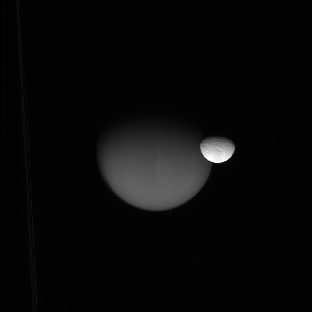 This raw, unprocessed image of Titan and Tethys was taken on October 18, 2010 and received on Earth October 19, 2010. The camera was pointing toward Titan at approximately 2471009 kilometers away, and the image was taken using the RED and CL2 filters. The image has not been validated or calibrated. A validated/calibrated image will be archived with the Planetary Data System in 2011.